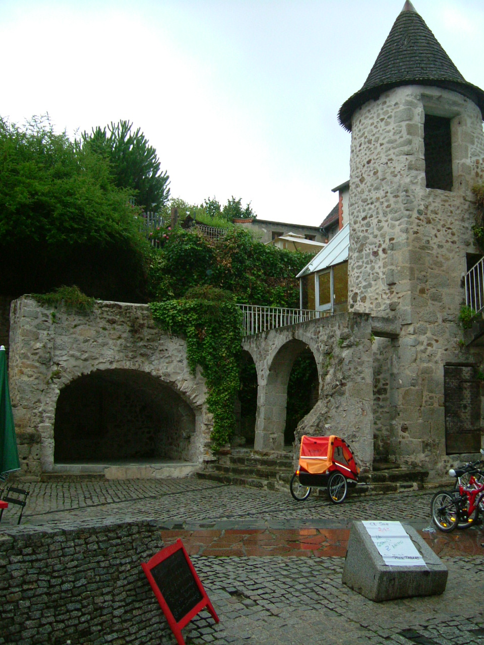 Aubusson, place Tabard